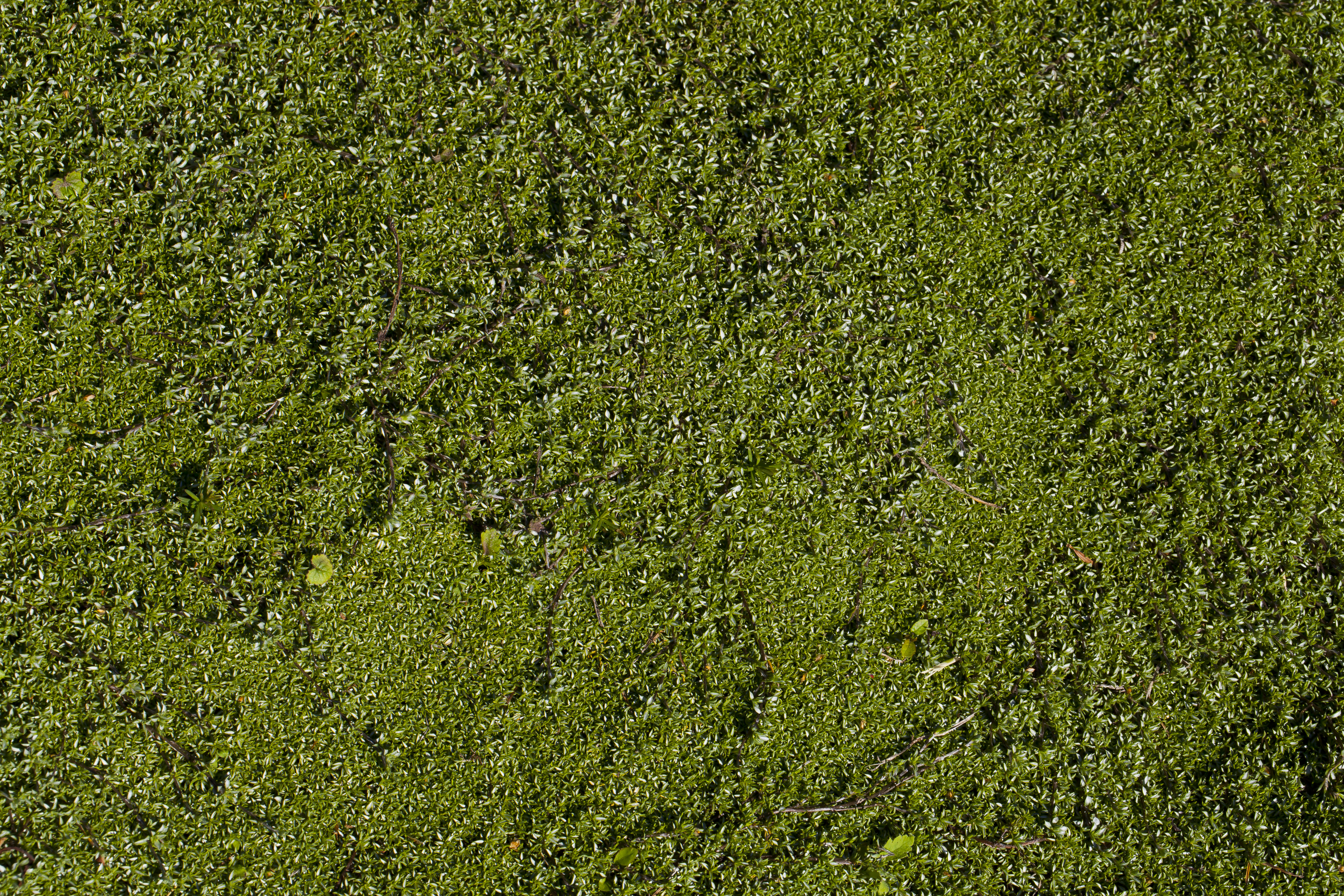 Raoulia tenuicaulis, Tallinn Botanic Garden, Estonia